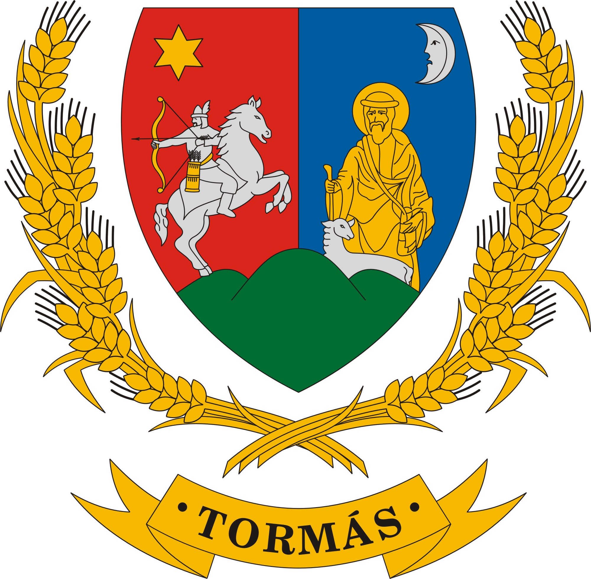 Coat of arms of Tormás, Hungary